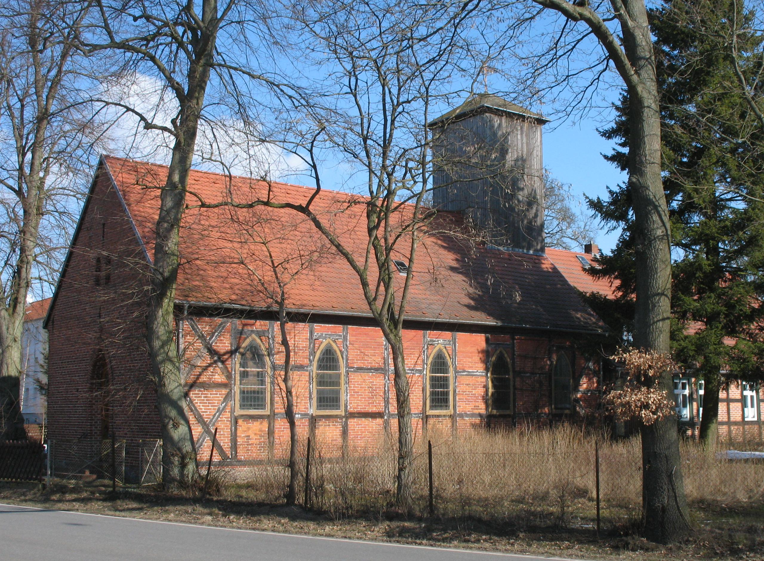 Church in Heiligengrabe-Jabel in Brandenburg, Germany